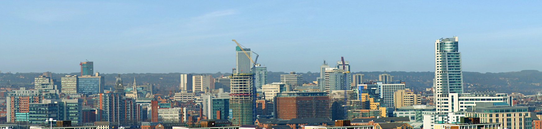 Photograph of the Leeds central business district from the South